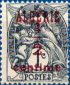 The first Algerian stamp, overprint on a stamp of France, 1924 issued